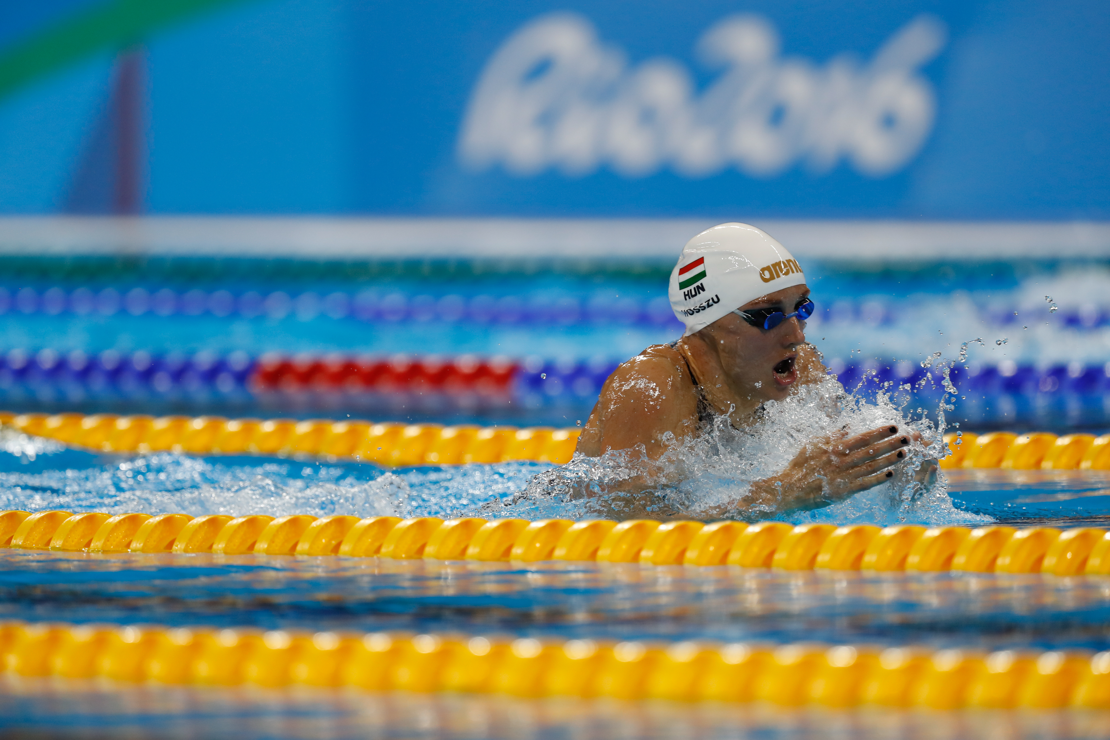 Rio de Janeiro - Húngara Katinka Hosszu vence final dos 200m nado medley e medalha de ouro nos Jogos Rio 2016. (Fernando Frazão/Agência Brasil)